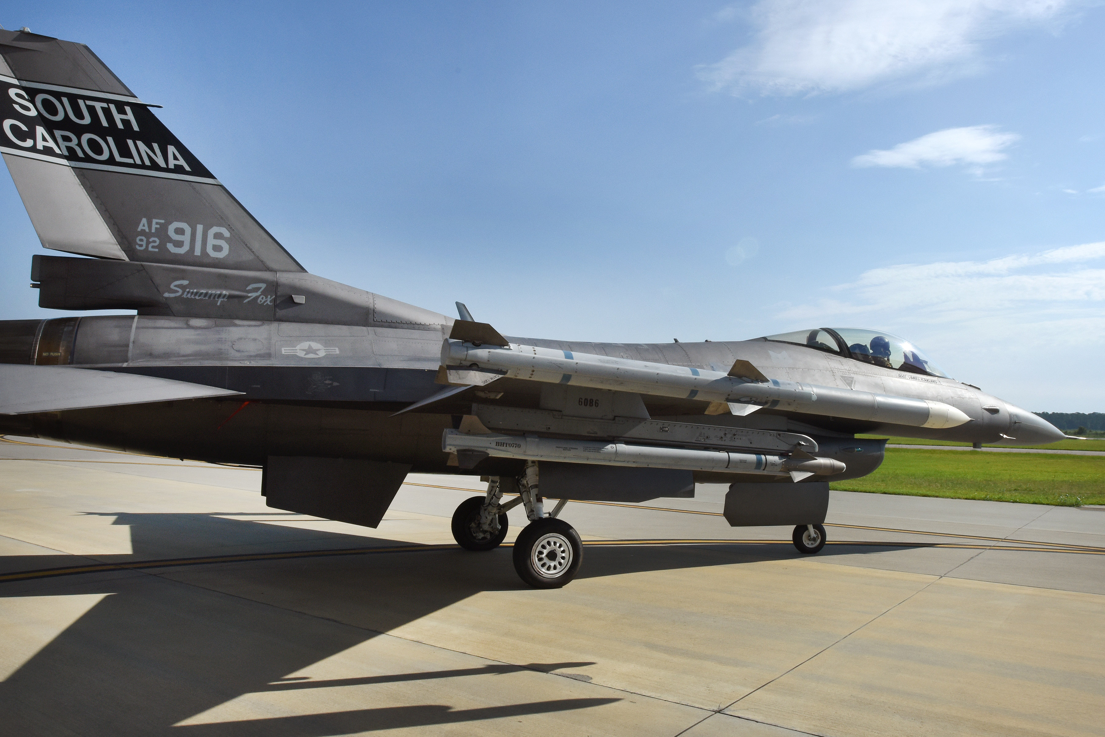 U.S. Air Force Lt. Gen. R. Scott Williams, commander of Continental U.S. NORAD Region, taxis for a flight in a South Carolina Air National Guard F-16 Fighting Falcon fighter jet at McEntire Joint National Guard Base, S.C., June 15, 2017. Lt. Gen. Williams is visiting the South Carolina Air National Guard to fly and train with Swamp Fox pilots from the 169th Fighter Wing. (U.S. Air National Guard photo by Senior Master Sgt. Edward Snyder)